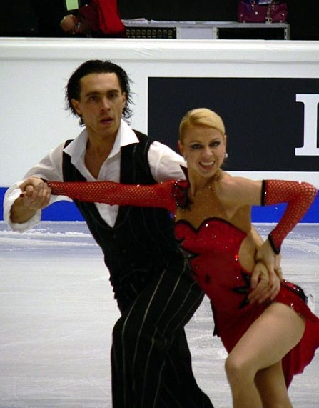 Elena Grushina and Ruslan Goncharov at the 2006 European Figure Skating Championships